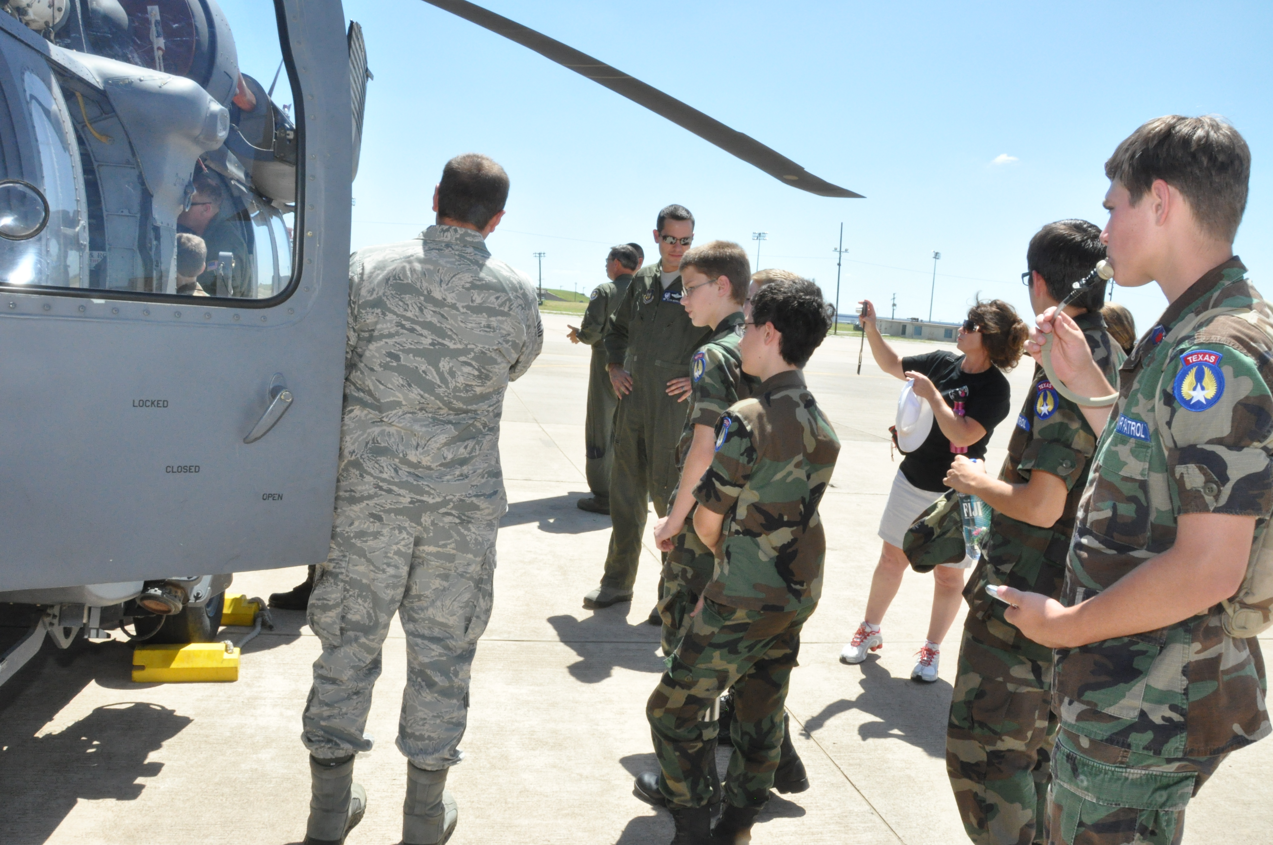 More than a dozen middle school and high school-aged civil air patrol students were treated to a tour of the 305th Rescue Squadron's HH-60 Pave Hawk helicopter June 13 at the Naval Air Station Fort Worth Joint Reserve Base, Texas. They were shown all the amenities that this metal giant has to offer to assist the aircrews in their search and rescue missions.